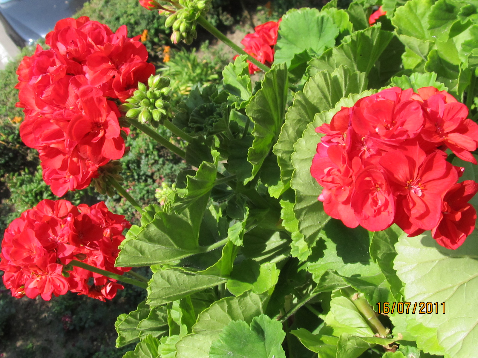 Pelargonium